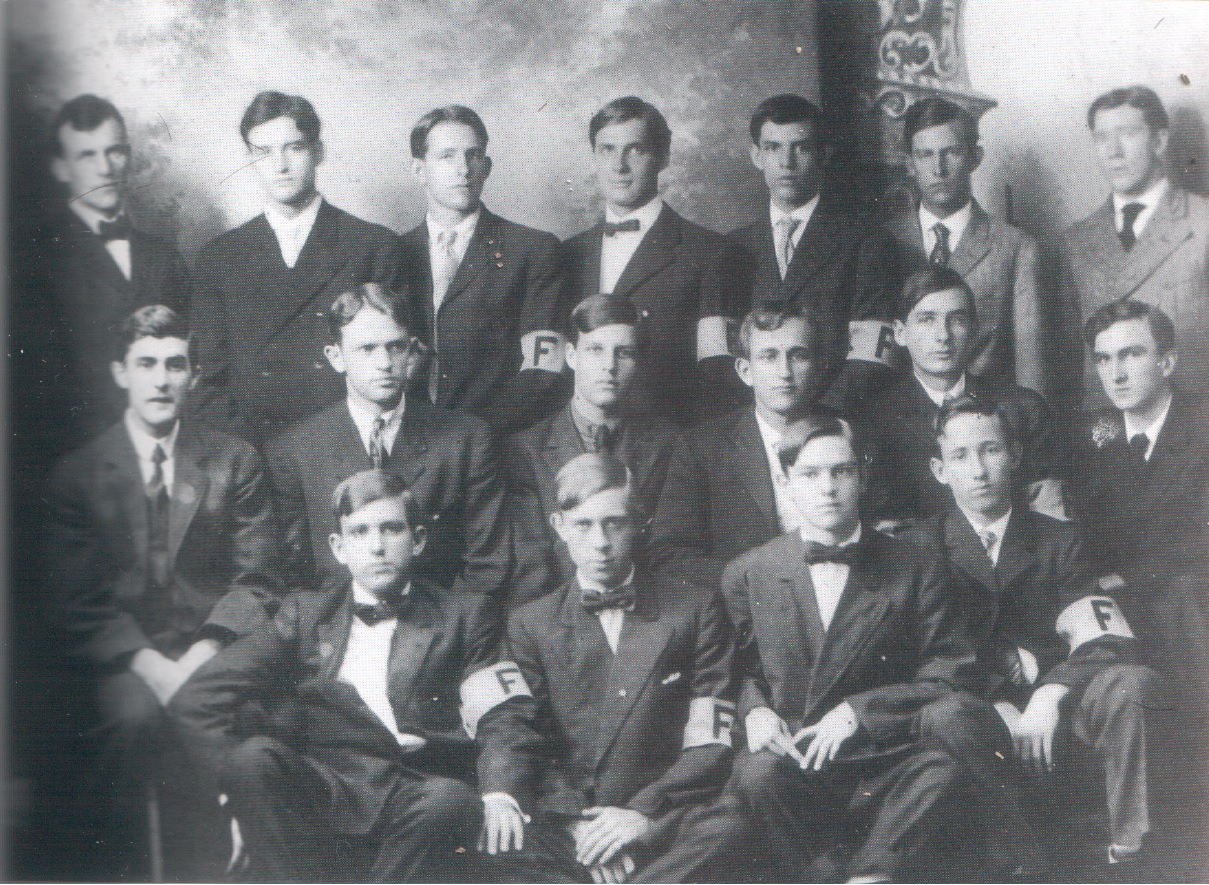 Team photo of the 1907 Gator football team. Photo was published before 1923 and is thus in the public domain.